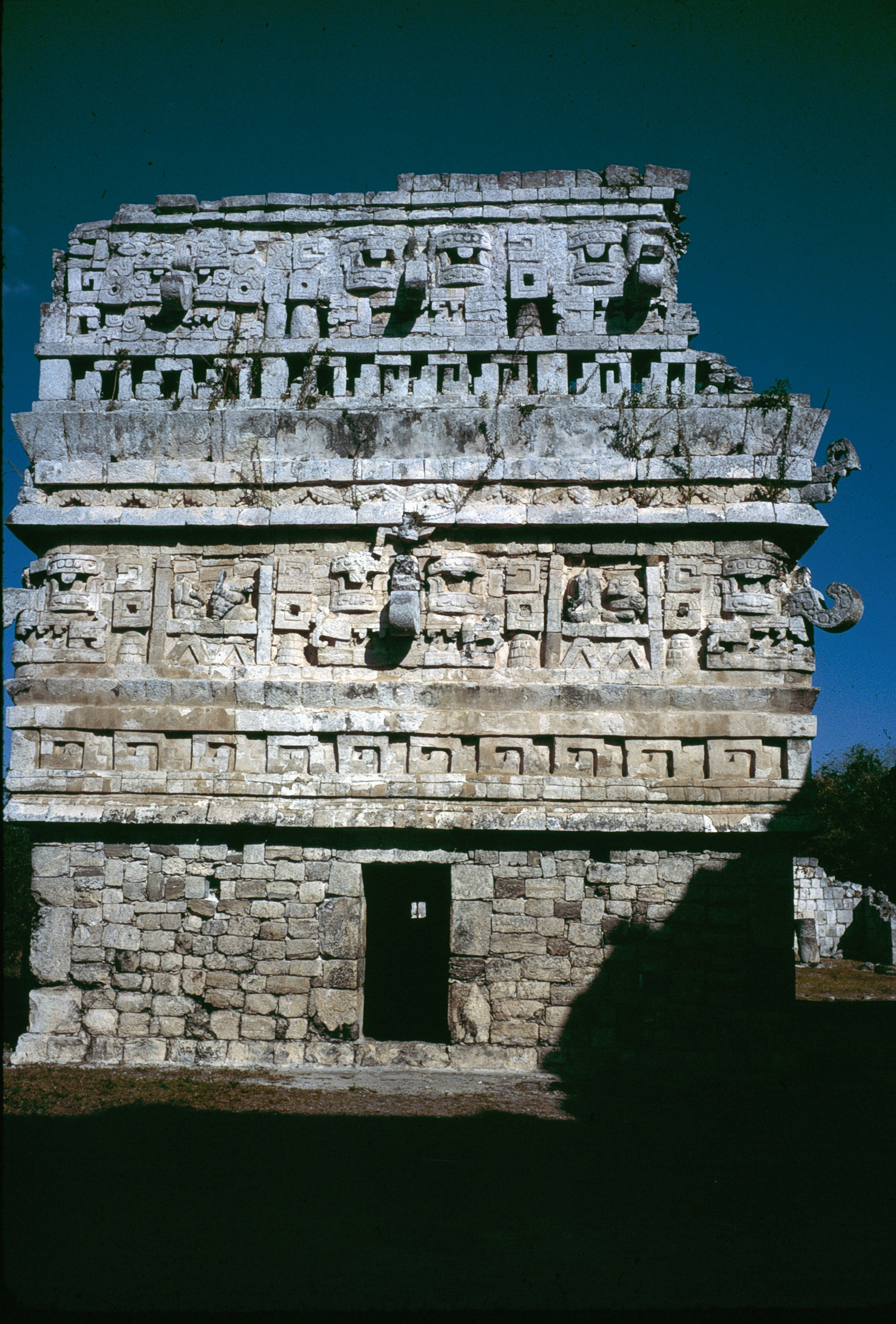 Chichen Itza, Yucatan, Mexico: Iglesia, detail of east frieze